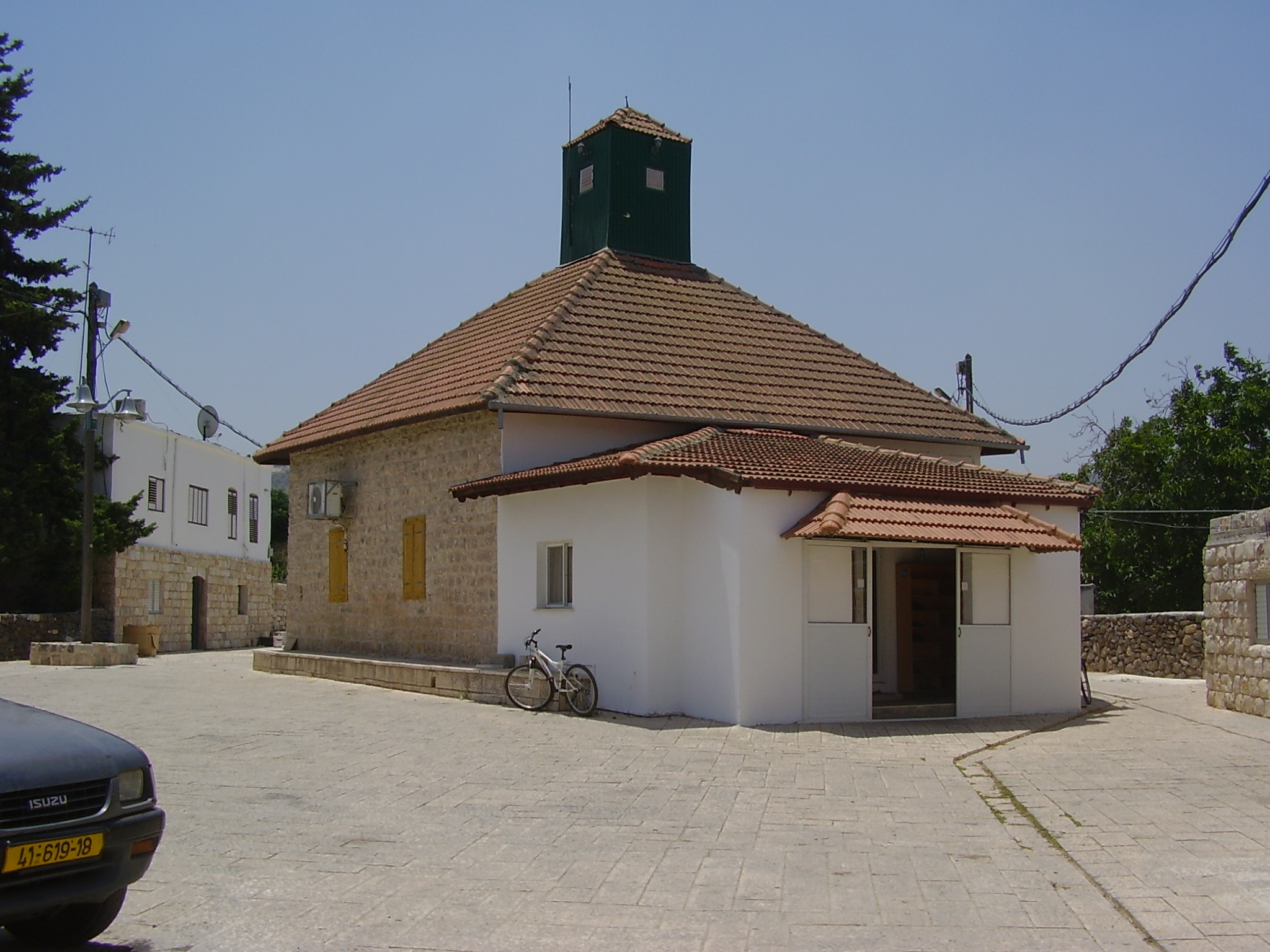 The mosque in Rihaniya